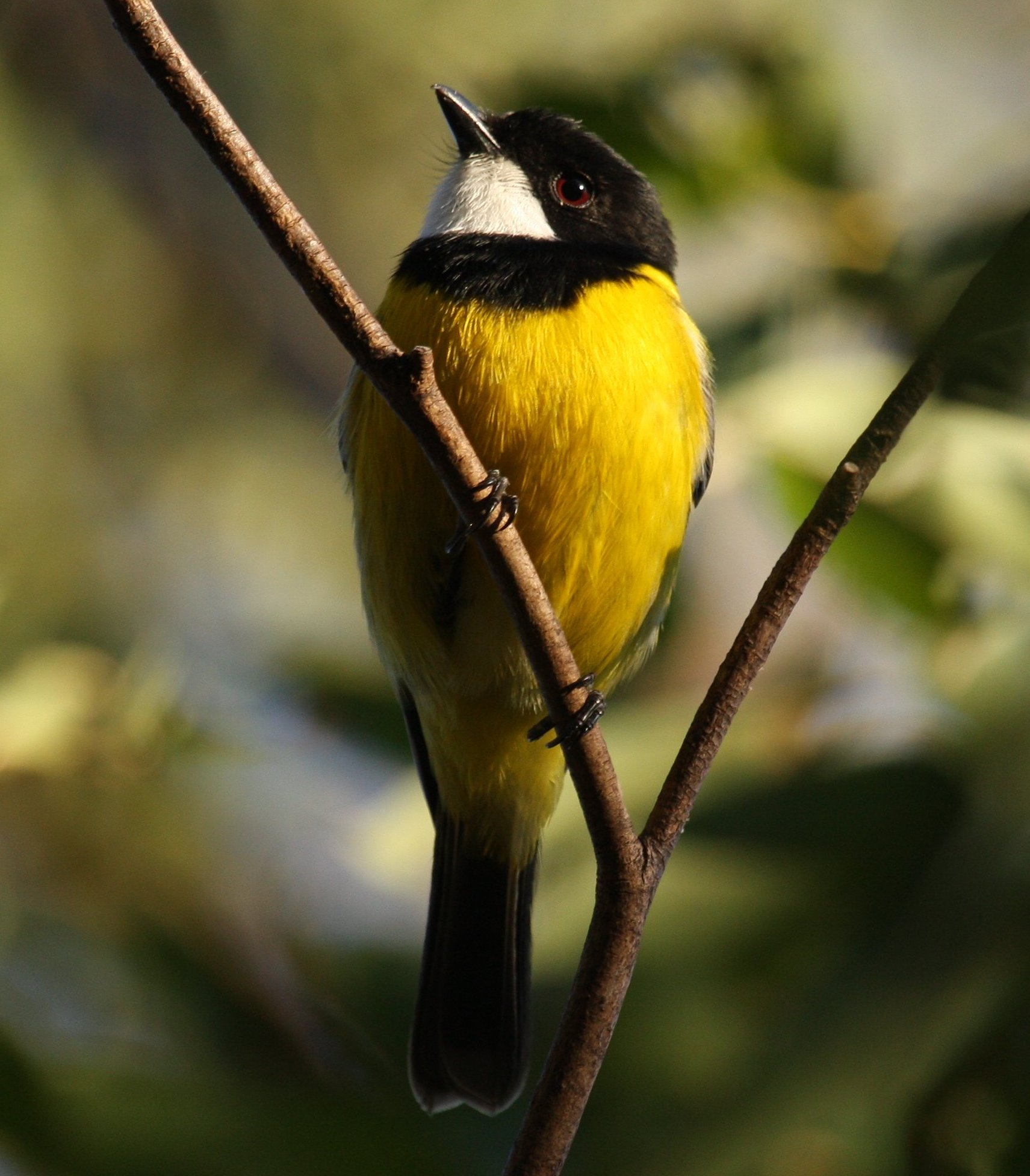 Golden Whistler (Pachycephala pectoralis) Kobble Creek, SE Queensland, Australia